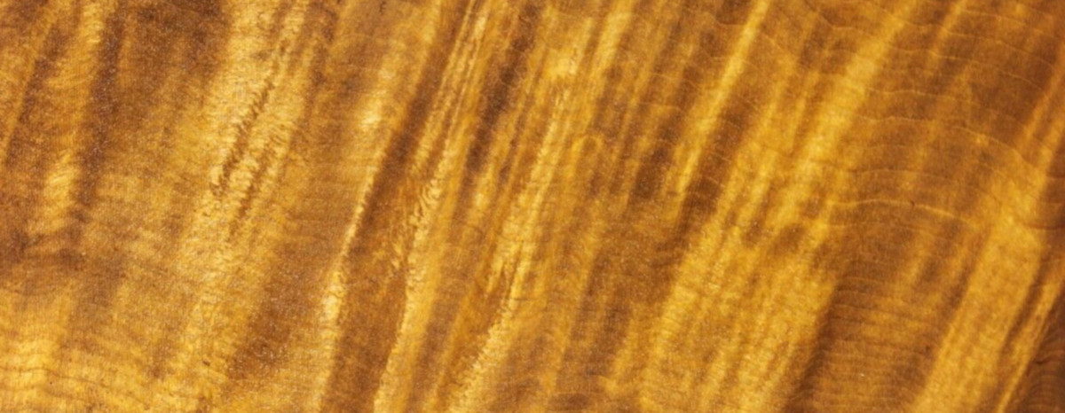 Image of the grain pattern of Chinese "nanmu" wood (Phoebe zhennan species).